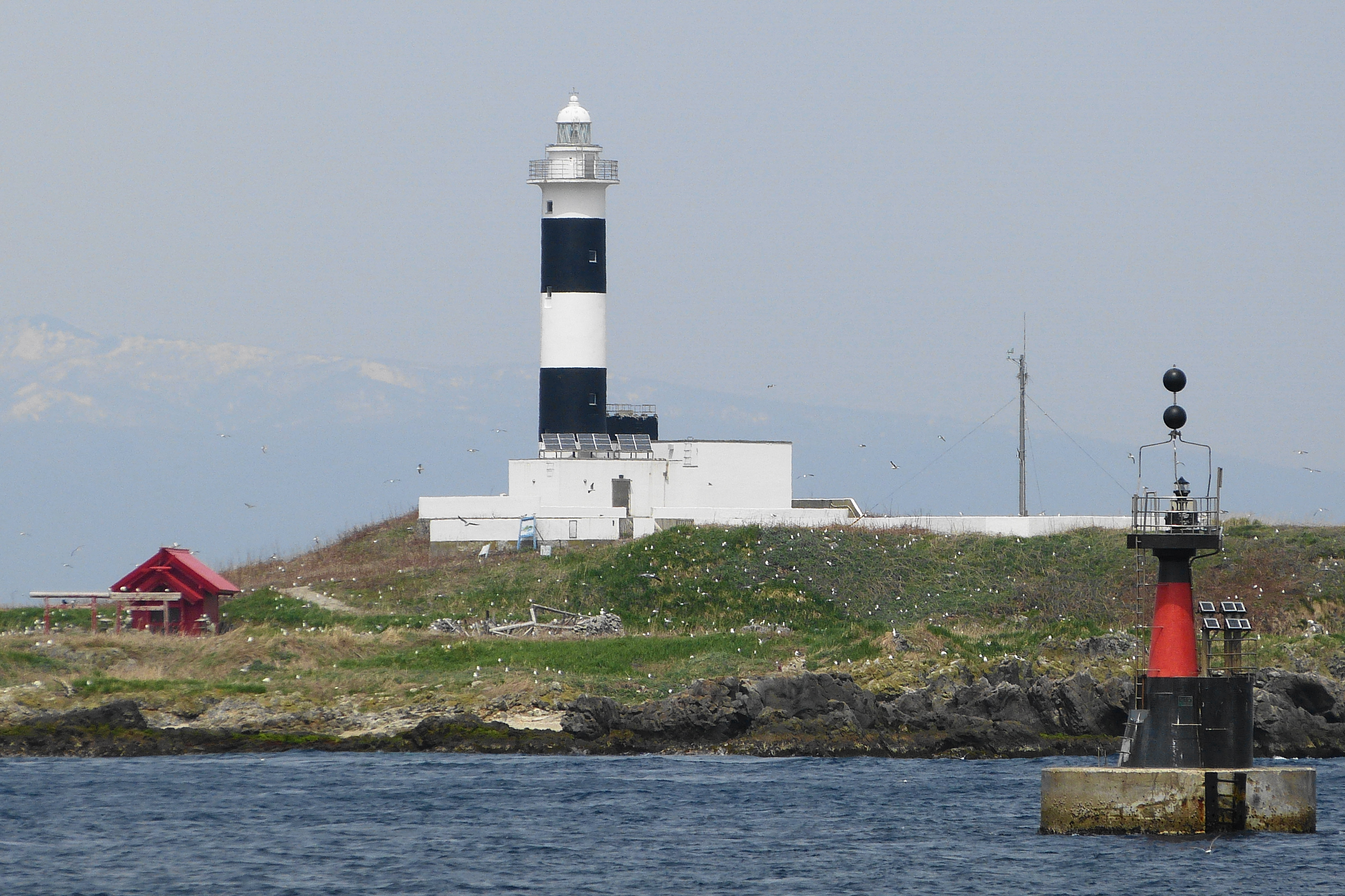 Omasaki Lighthouse in Oma Town, Aomori Prefecture, Japan